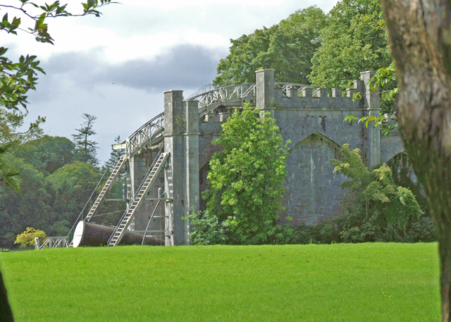 Birr Castle astronomical telescope